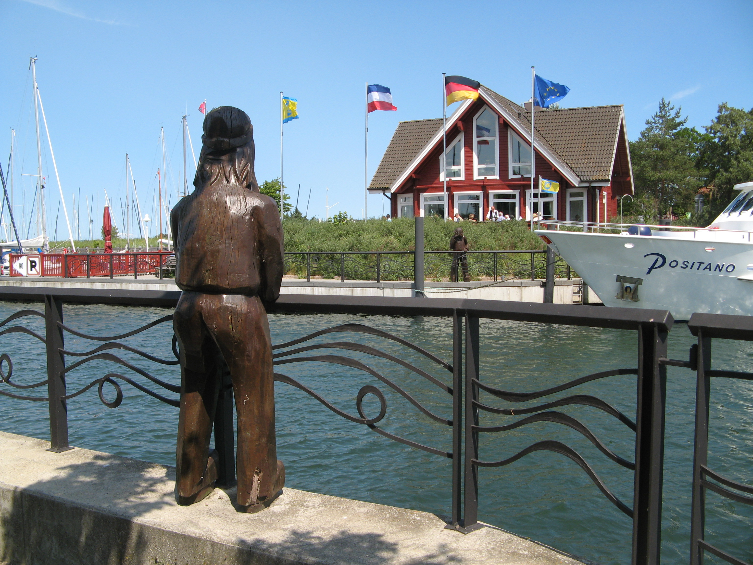 Niendorfer Hafen - Altes Zollhaus, Wood sculptures „Der Rufer“ and „Der Lauscher“ by Wolfgang Gerthagen